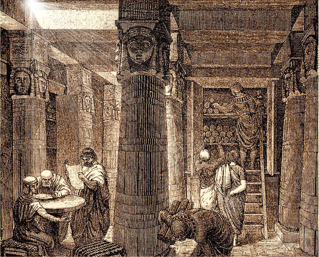 Library of Alexandria (sepia)